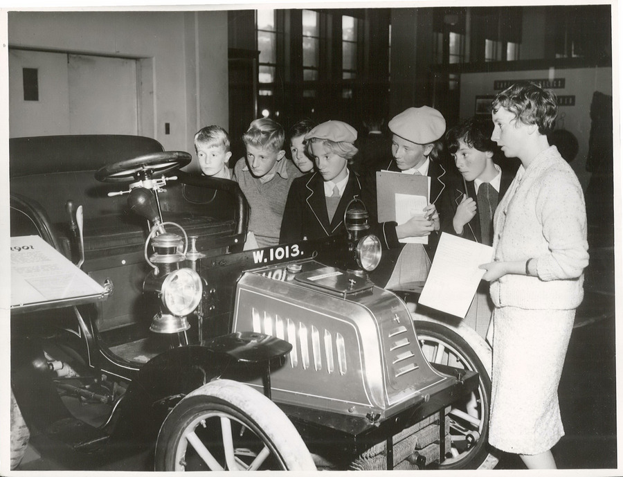 Images from NZ Archives Flickr albums Images uploaded in collaboration between WMUK and the University of Edinburgh